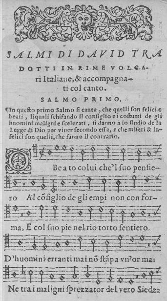 Psalm 1 from "Sessanta Salmi di David, tradotti in rime volgari italiane..." [Genève] : Jean-Baptiste Pinereul, 1564.